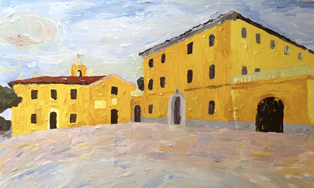 Painting by Vincenzo Mainardi (2019) - The Villa Granducale in Alberese, Grosseto (Italy)